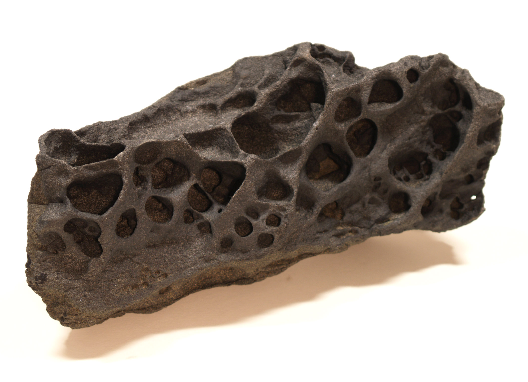 Tafoni, Davis Station, Prydz Bay, Antarctica; sampled during an expedition of research vessel POLARSTERN in 2007